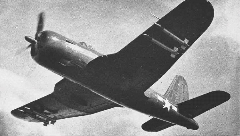 A Ryan FR-1 Fireball armed with four HVAR rockets in 1945.